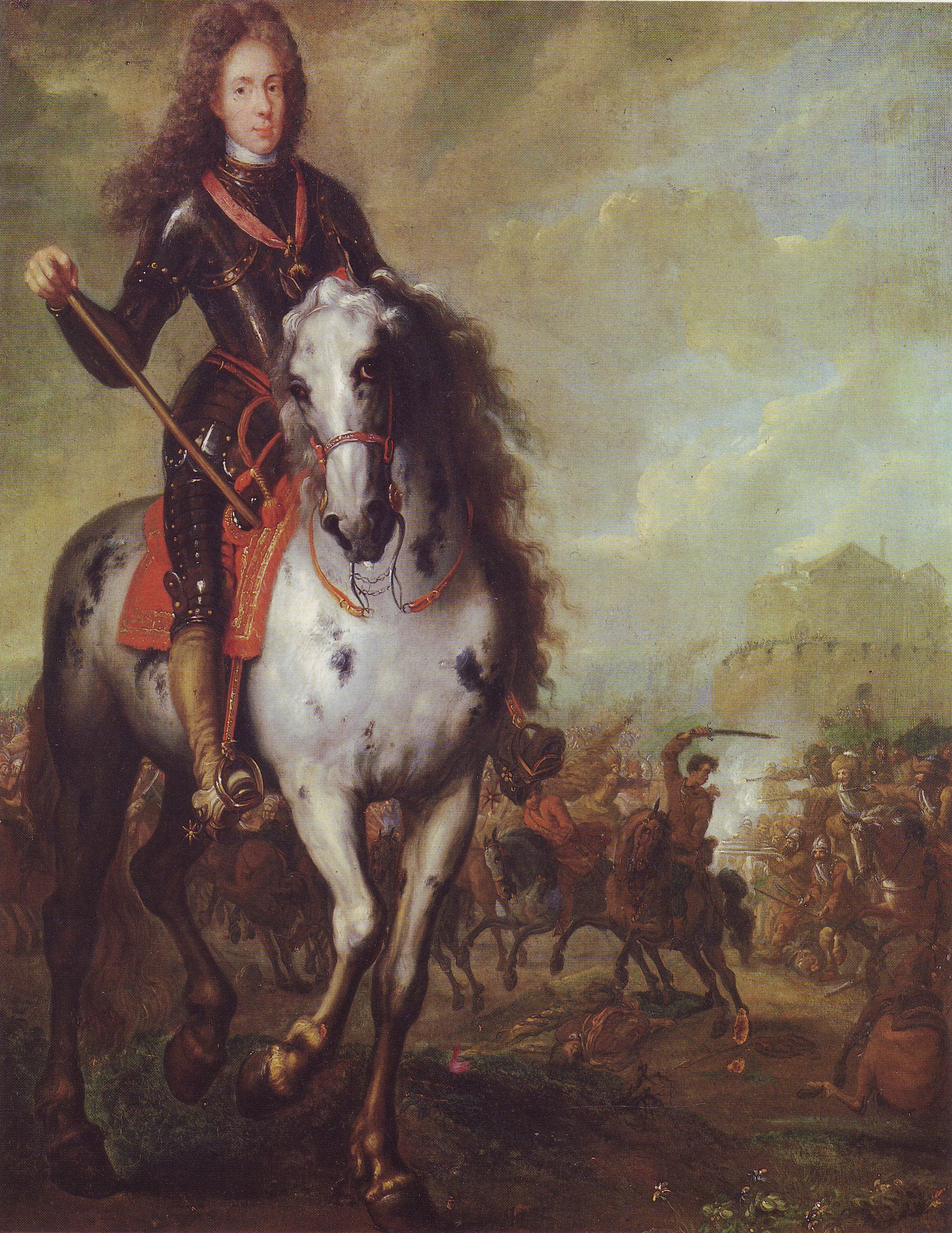 Equestrian portrait of Eugene of Savoy (1663-1736)